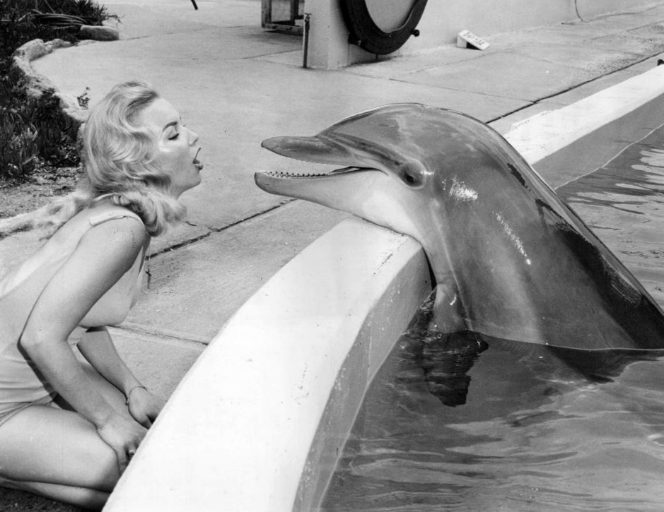 Publicity photo of the 1963 Citrus Queen and one of Marineland of Florida's porpoises.